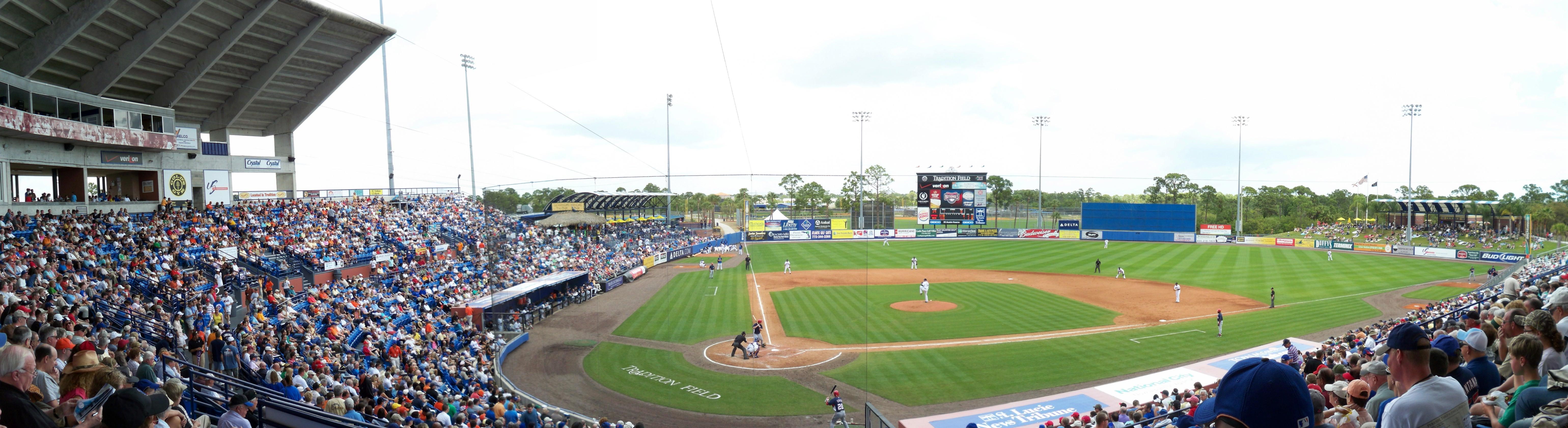 Panorama of Tradition Field - NY Mets Spring Training - Port St. Lucie, FL